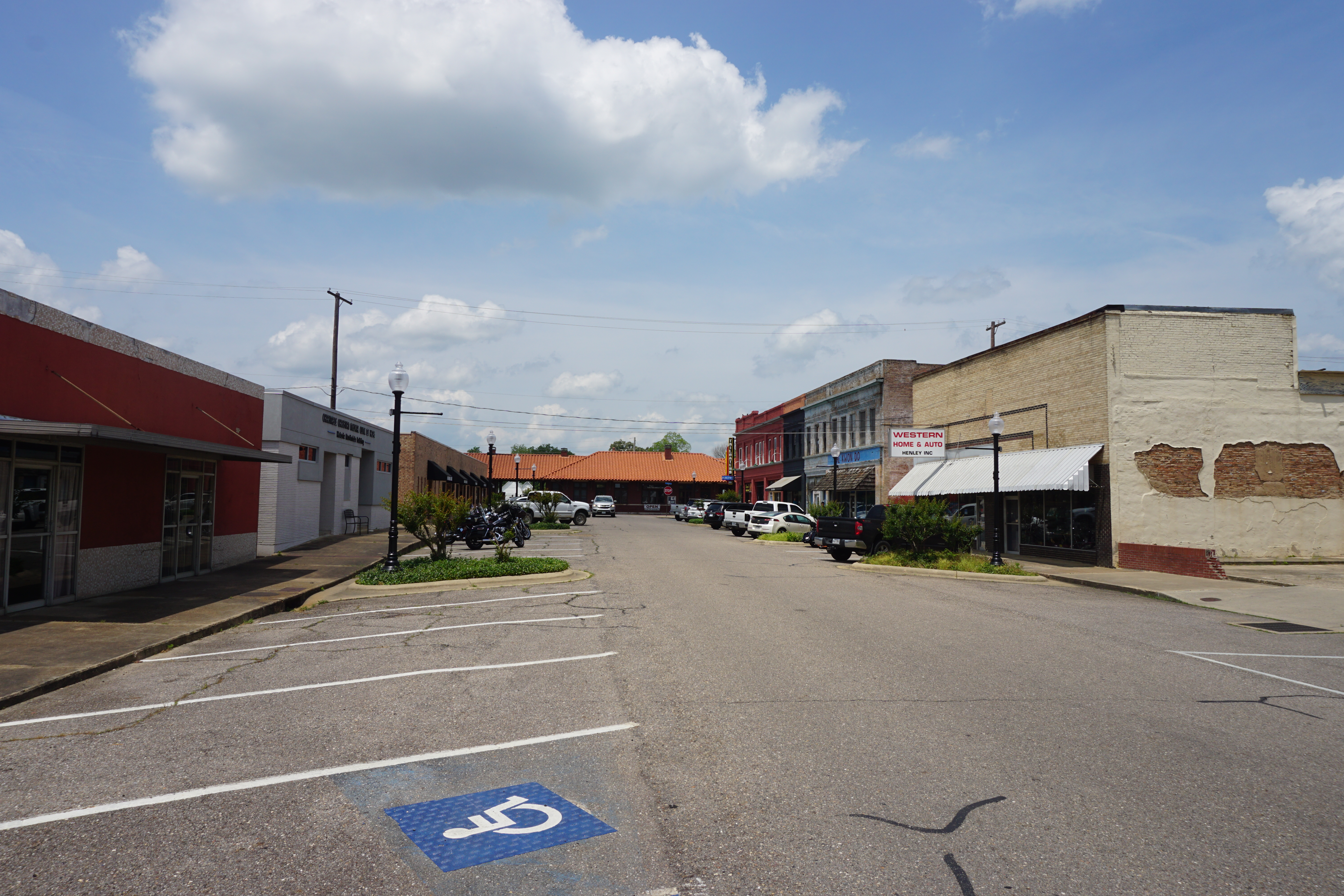 South Main Street in Hope, Arkansas (United States).